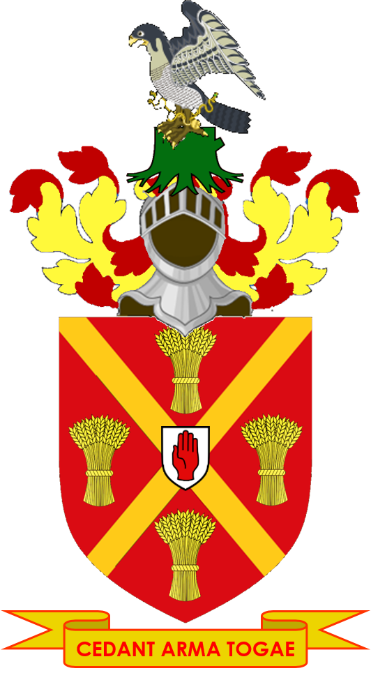 The armorial achievement of the Reade baroents of Barton